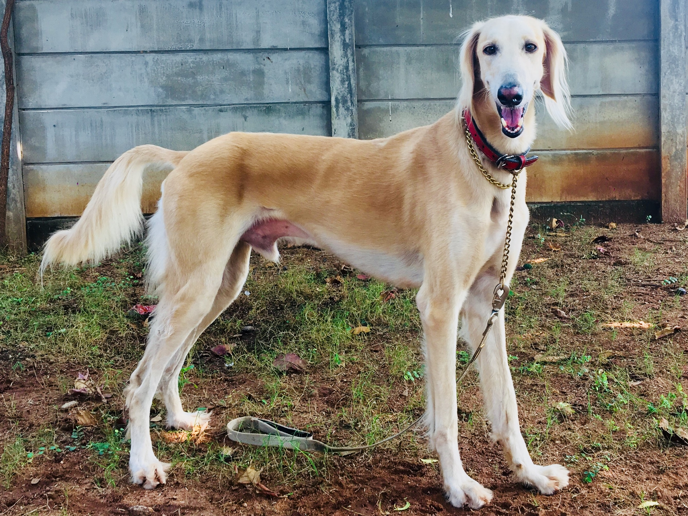 Dog of Saluki Breed aka Persian Greyhound